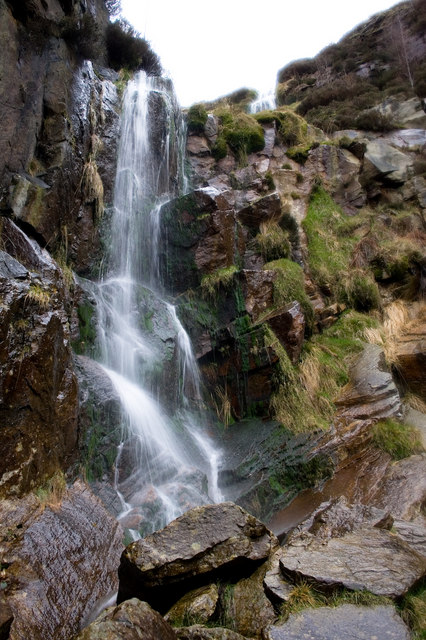 The waterfall at Crompton Moor's Pingot Quarry, in Shaw and Crompton, Greater Manchester, England.